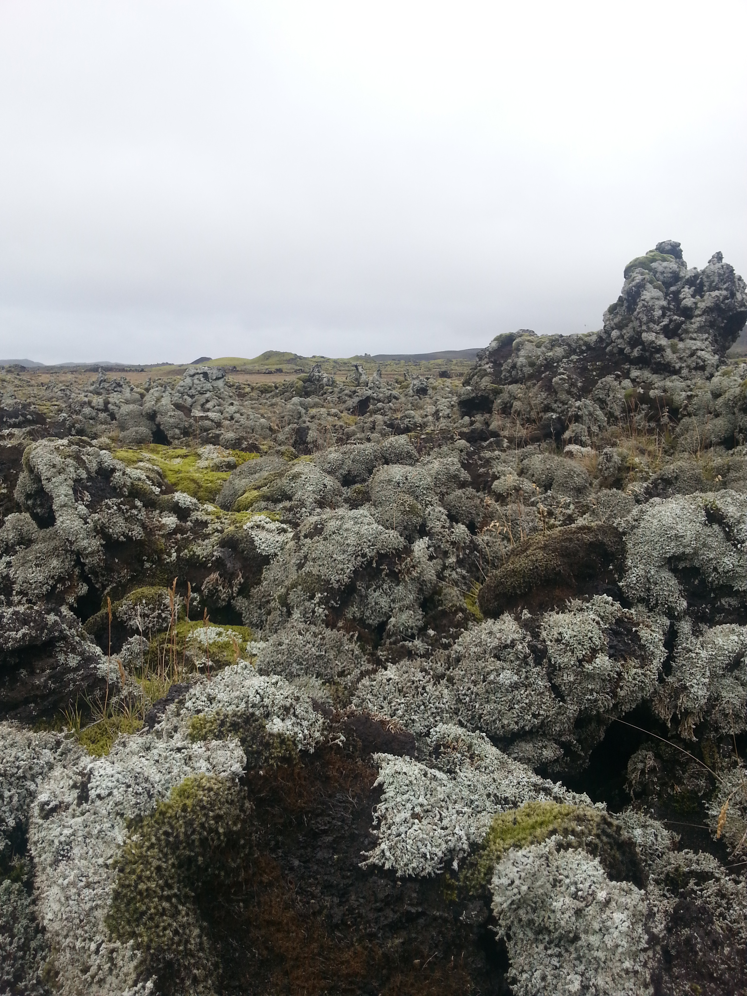 Lava from Hekla in Rangárvallasýsla, Iceland. Dominant species are Stereocaulon vesuvianum and Racomitrium ericides.